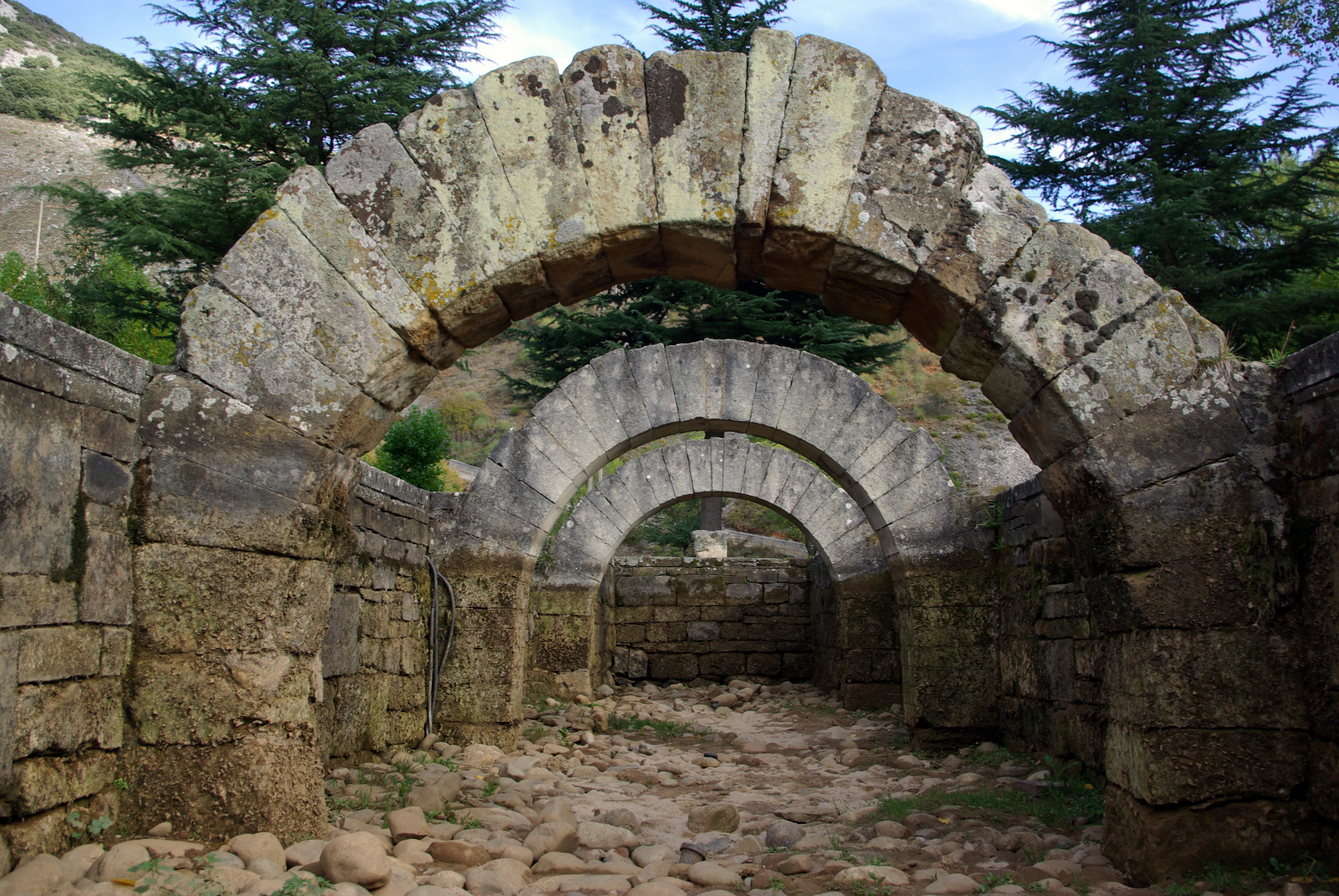 Inside La Reana fountain in Velilla del Río Carrión (Palencia, Spain)